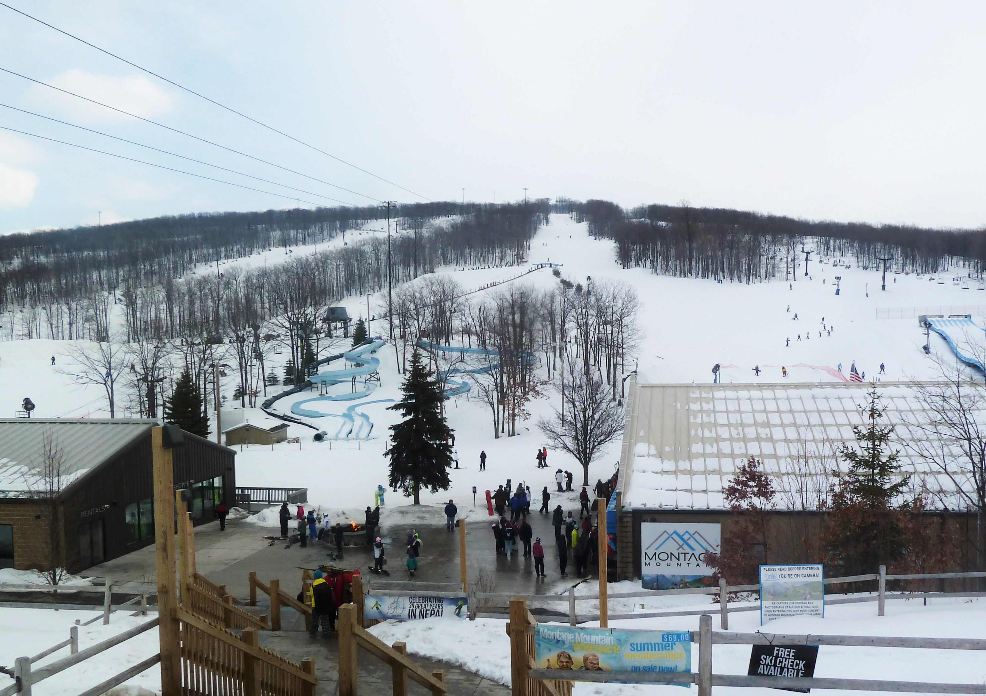 View of lodge and Montage ski mountain